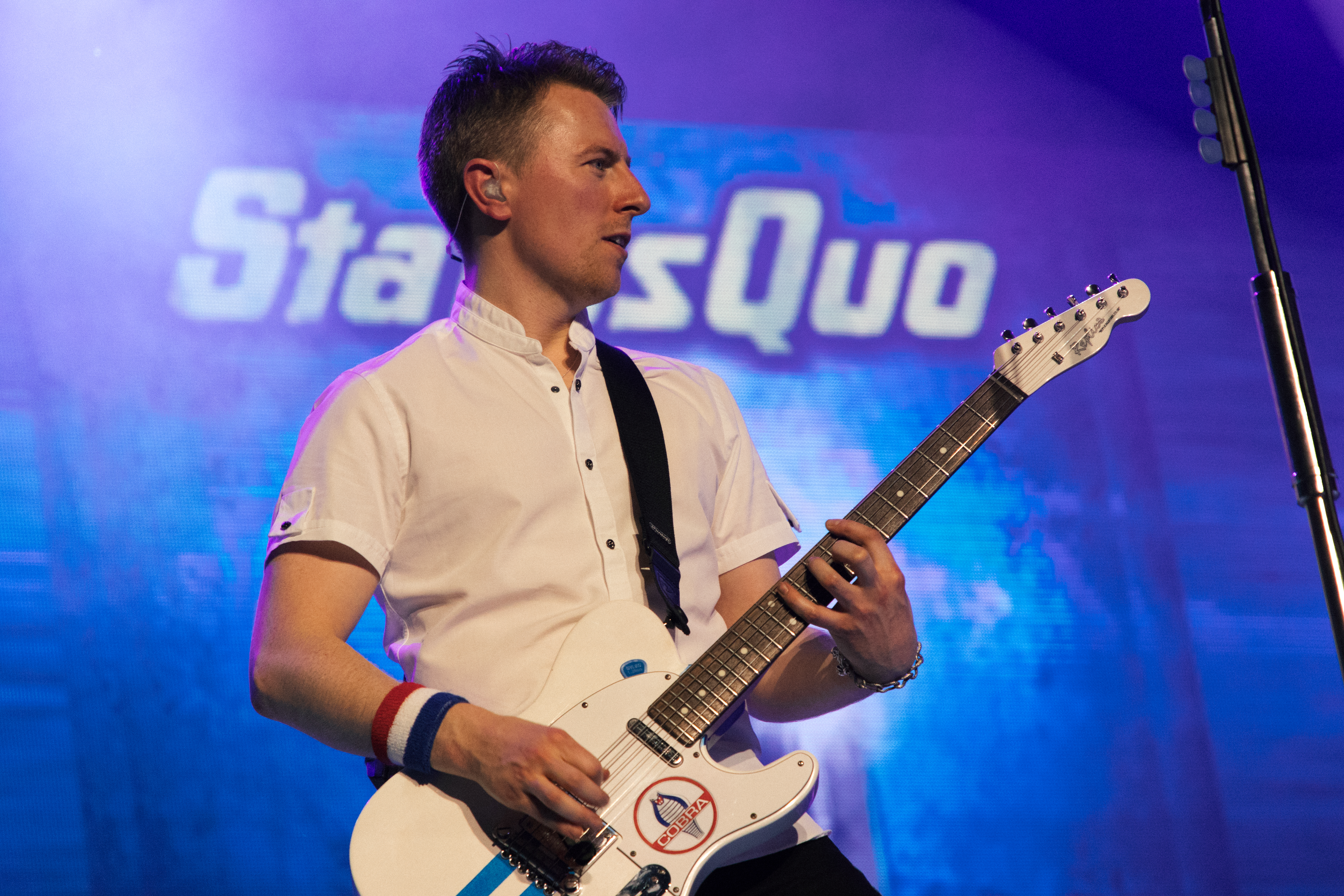 Richie Malone performing live with Status Quo at the Ribs & Blues Festival in Raalte, the Netherlands, May 2018